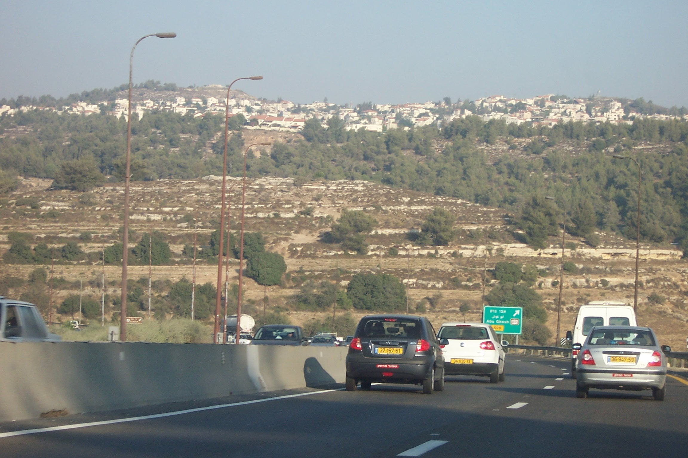 View from motor car on Israeli Highway 1, travelling east, approaching Abu Ghosh exit.